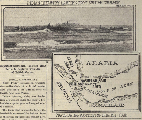 Insert from the New York Herald on the shelling and capture of the Turkish fort of Sheik Said (Yemen) November 10 and 11, 1914. The ship seen on the picture (originally from the British weekly The Sphere) is probably a transport since HMS Duke of Edinburgh (1904), which shelled the fort and provided cover for the landing, was a 4-funnel lead cruiser.